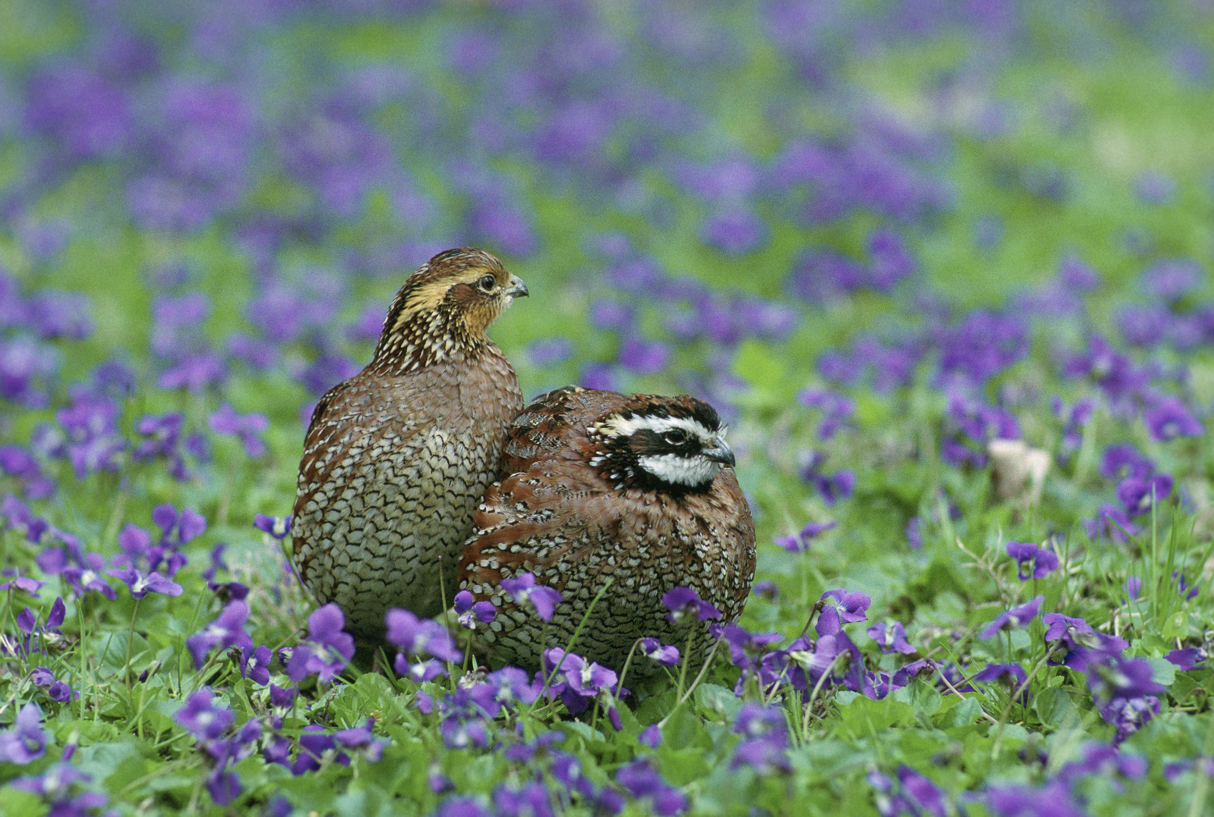 Colinus virginianus. Photo: Steve Maslowski/USFWS.